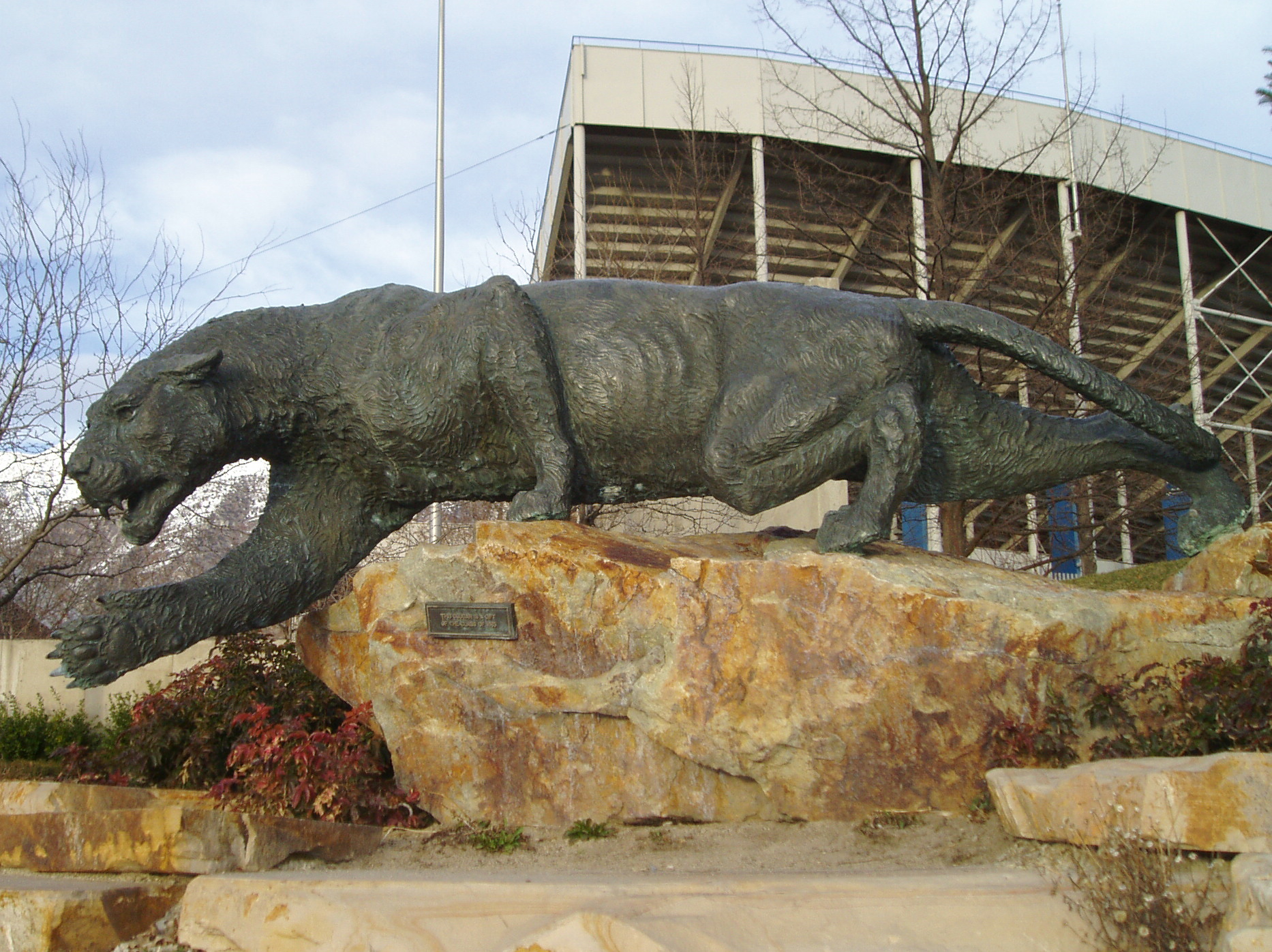 Bronze of a cougar outside the southwest gates of LaVell Edwards Stadium (formerly Cougar Stadium).